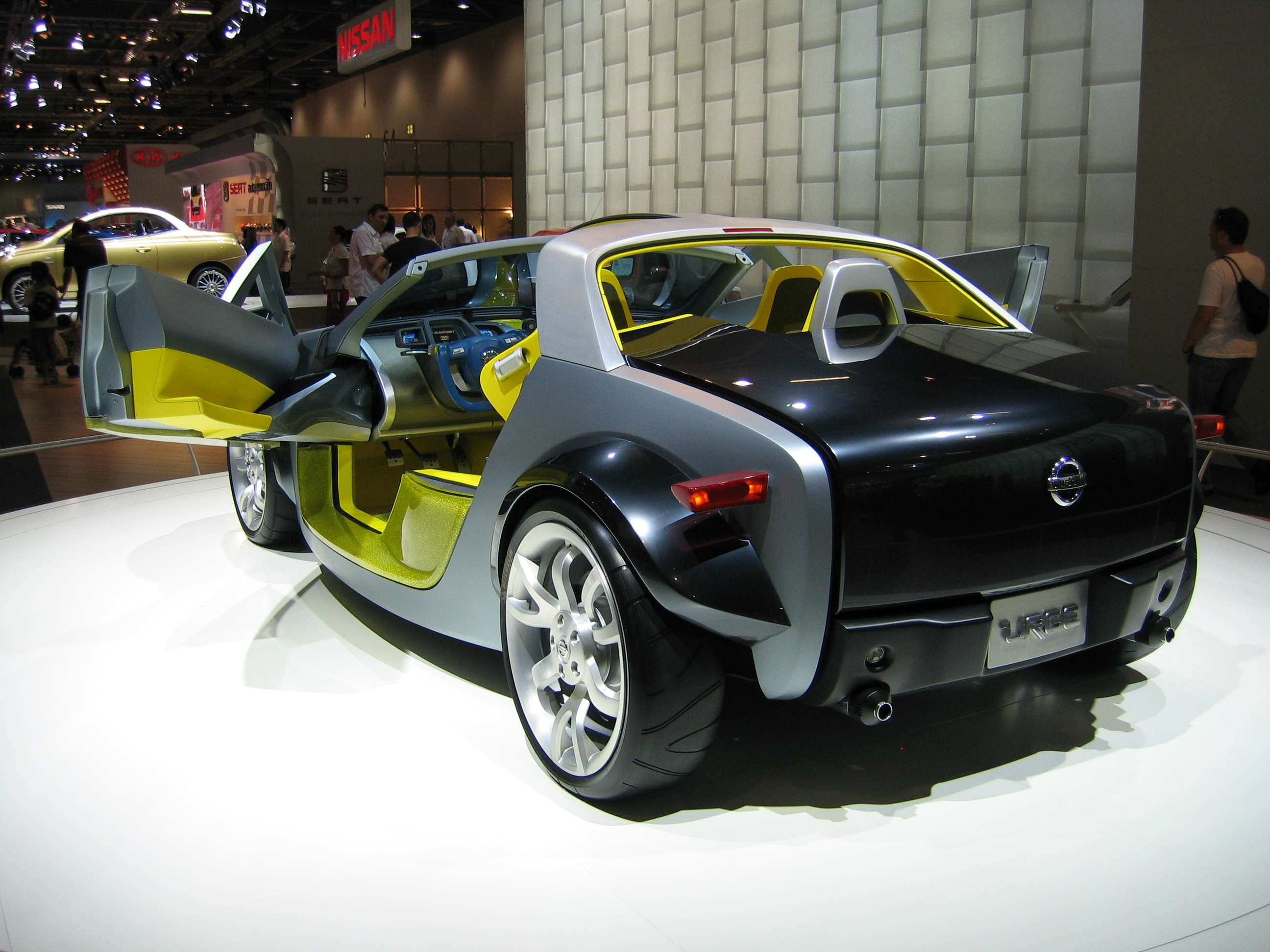 Nissan Urge Concept Car